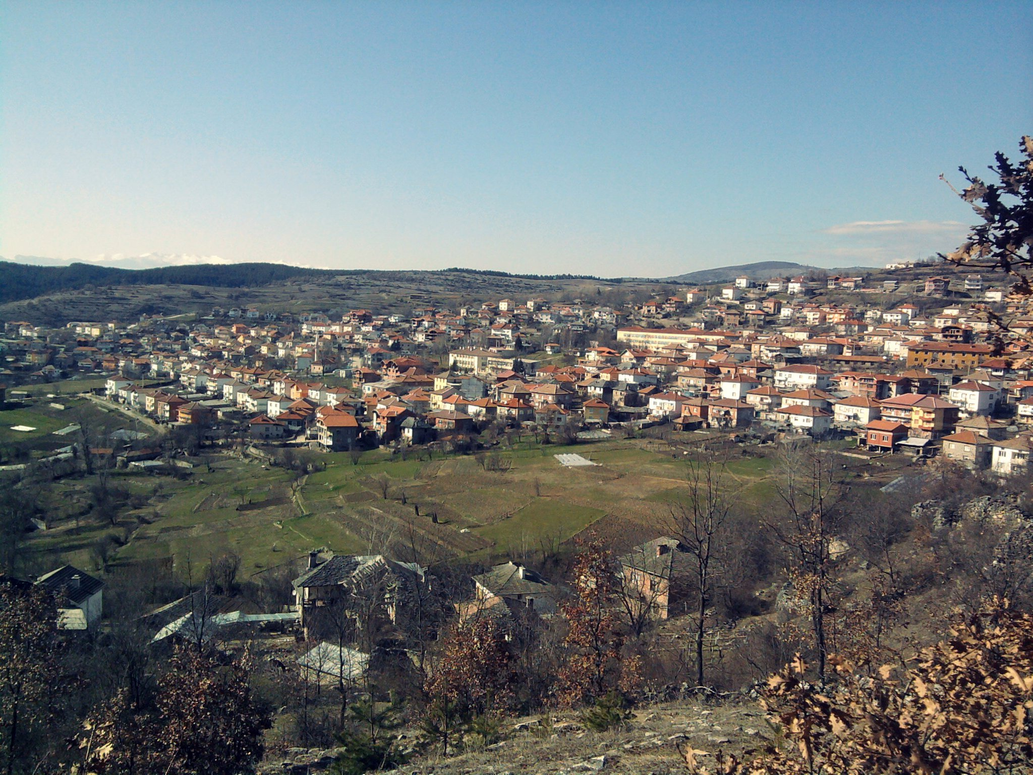 Slashten/Blagoevgrad/Bulgaria